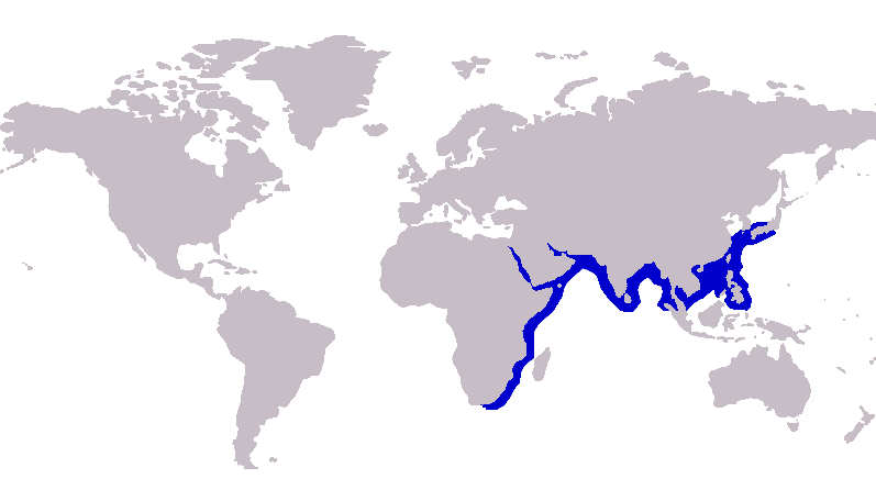 Approximate distribution of the cleftbelly trevally, Atropus atropus based on sources given in en wikipedia article. Map base from